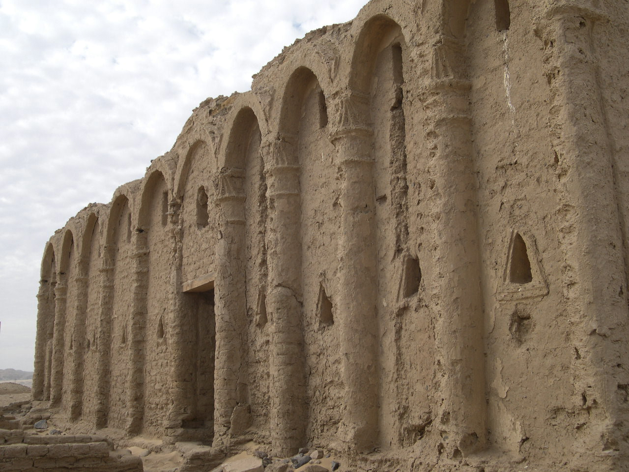 Al-Bagawat, also spelt as El-Bagawat, is an ancient Christian cemetery, one of the oldest in the world, which functioned at the Kharga Oasis in southern-central Egypt from the 3rd to the 7th century AD. It is one of the earliest and best preserved Christian cemeteries in the ancient world.